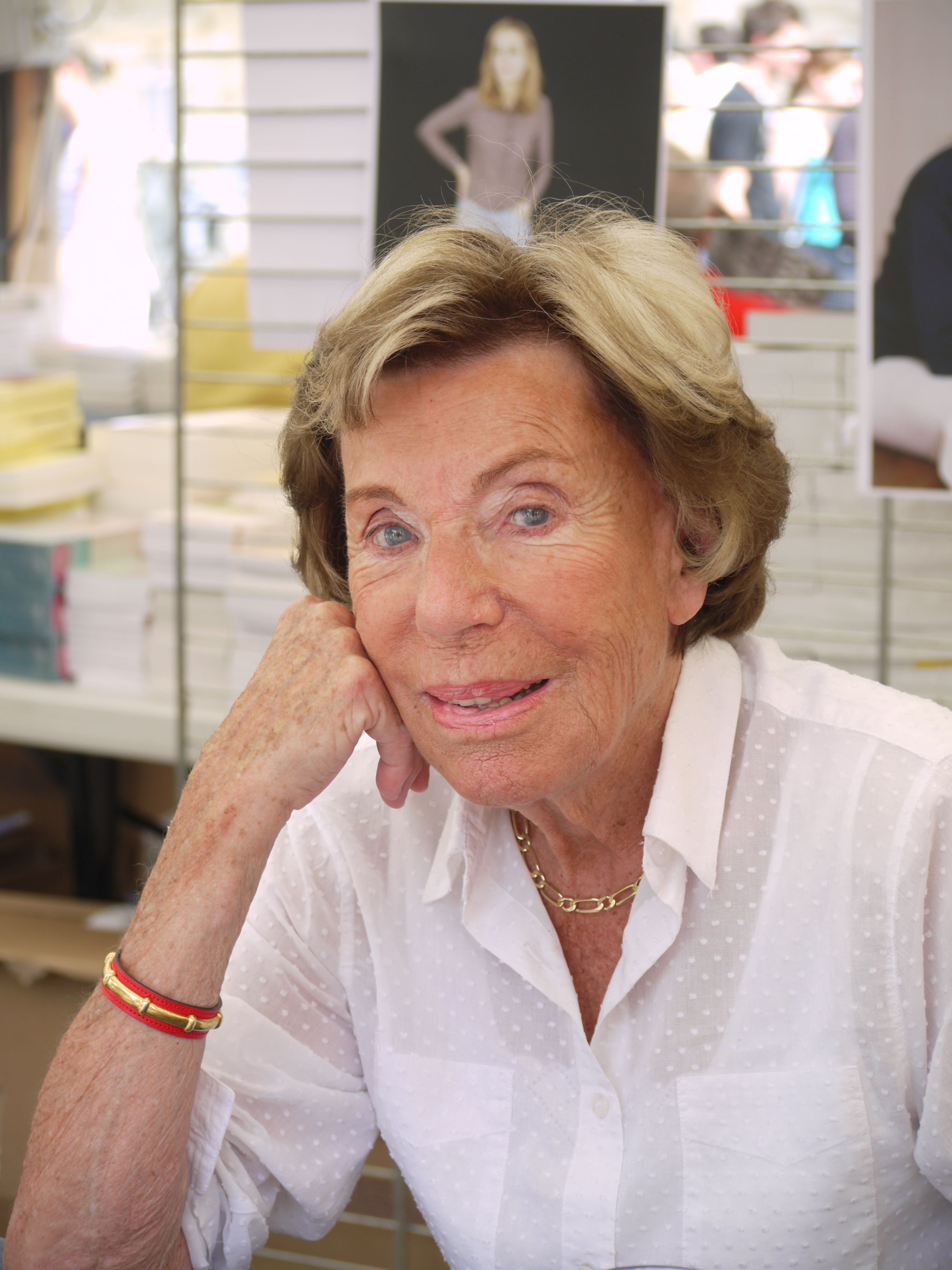 Comédie du Livre 2010 edition of Montpellier